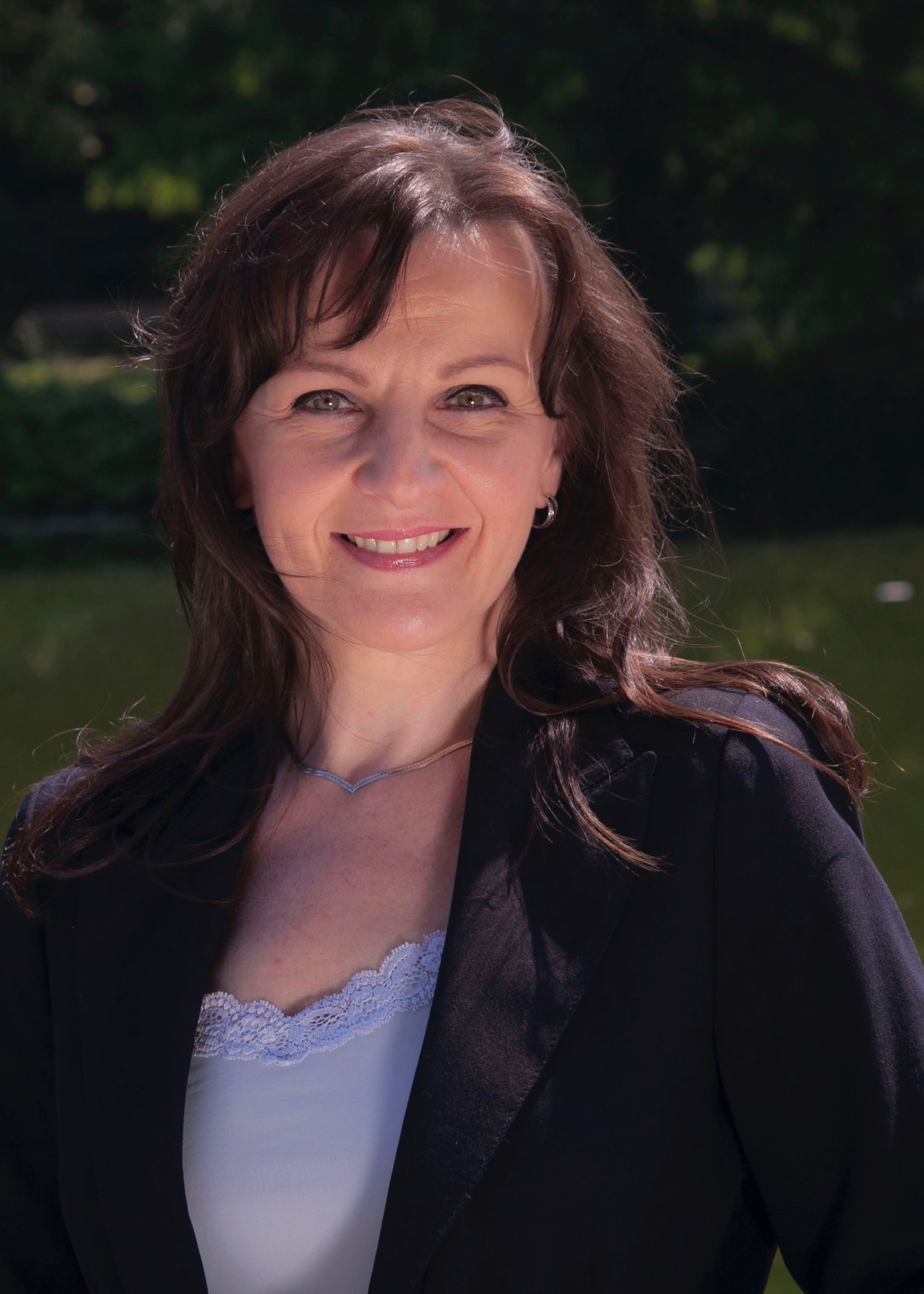 This is a photograph of Kerani that was made for her new album "Small Treasures" . This photograph was used in the booklet of "Small Treasures".